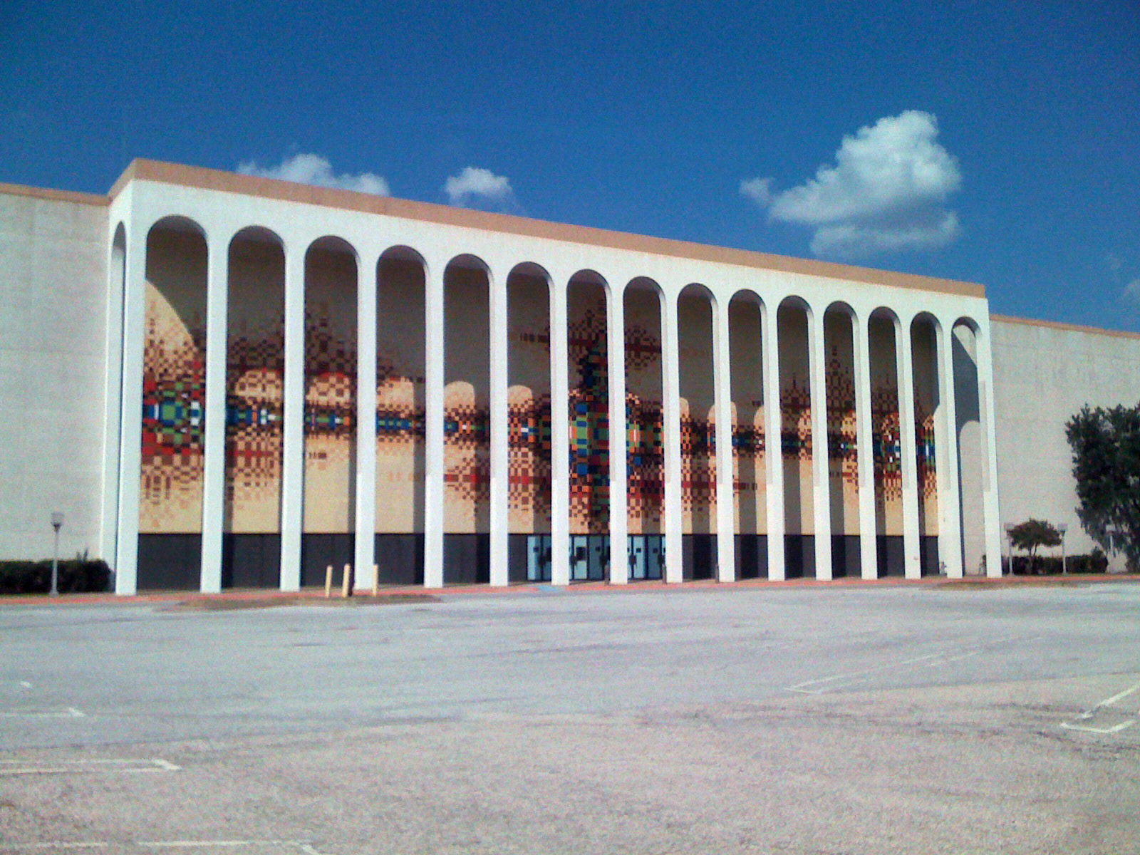 The largest of the three trademark Sanger-Harris murals at Valley View Center in Dallas, Texas. This location, one of the mall's original anchors, opened as a Sanger-Harris department store in 1973. The chain was merged with Foley's and renamed in 1987. May Department Stores bought Foley's in 1988 and then were bought in turn by Federated Department Stores in 2005. This location was re-branded as Macy's in September 2006 them closed on March 15, 2008.